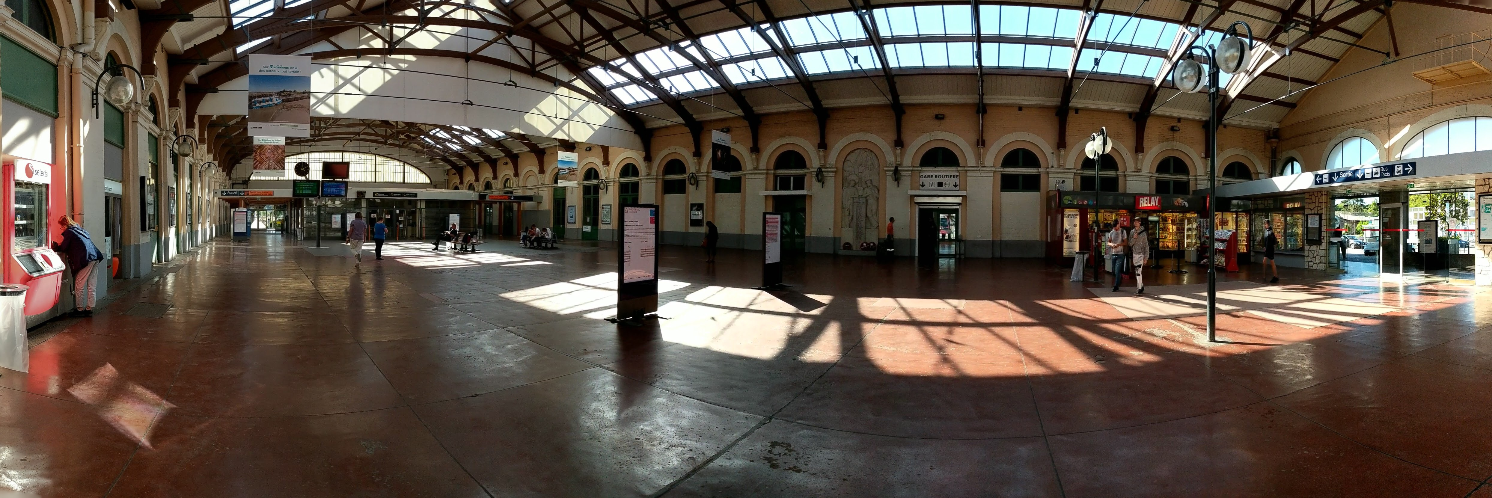 Dieppe Railway Station – panorama of the inside, 2019